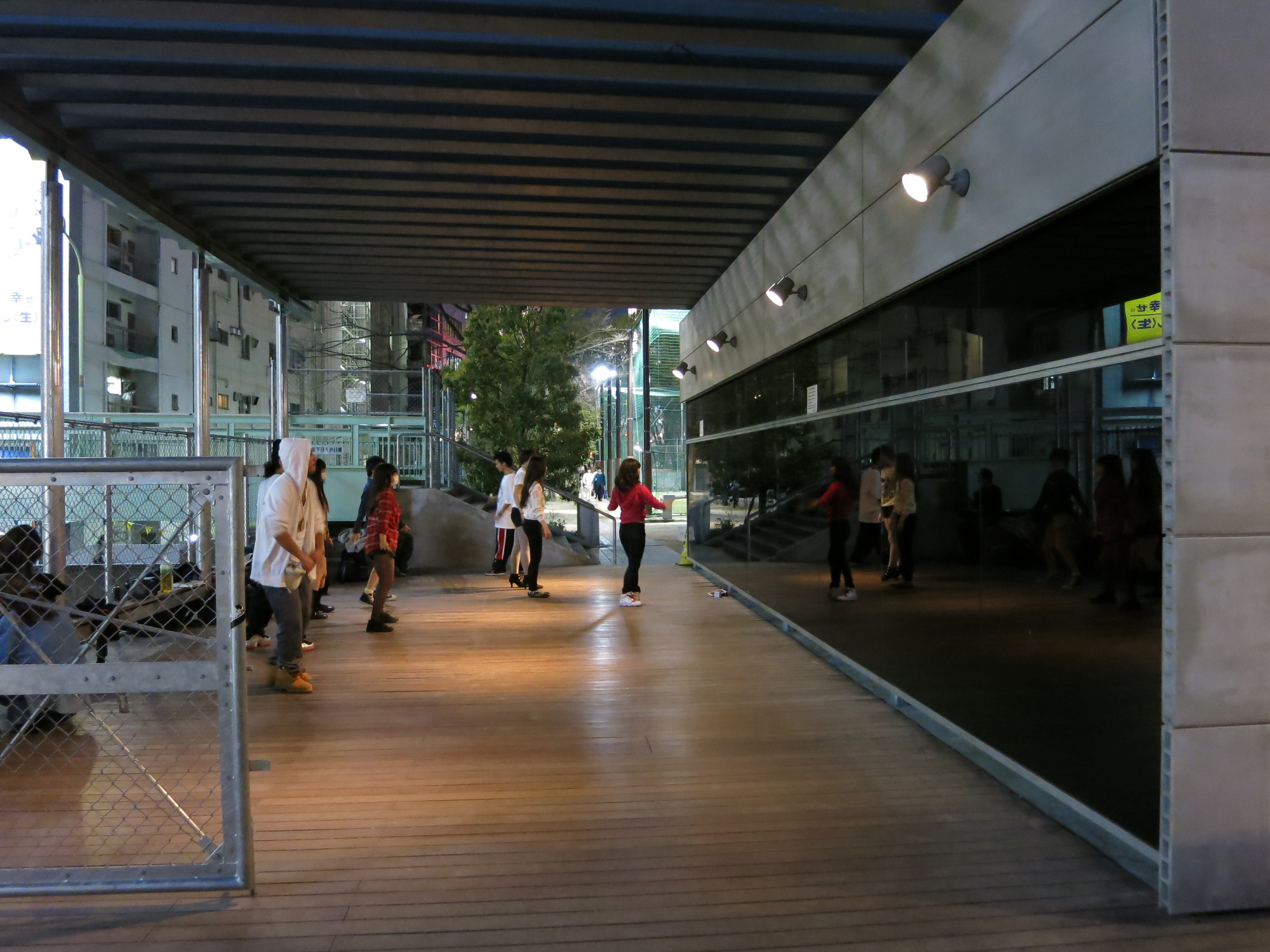 A free outdoor dance practice area in Miyashita Park, several hundred meters north of Shibuya Station. Tokyo, Japan.